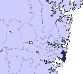 Locator Map Randwick lga sydney.png Based on Image:Ku-ring-gai sydney.png by User:Randwicked.